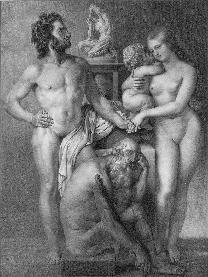 Frontispiece of Jean-Baptiste Marc Bourgery's Traité complet de l'anatomie humaine. Lithographs by Nicolas Henri Jacob.